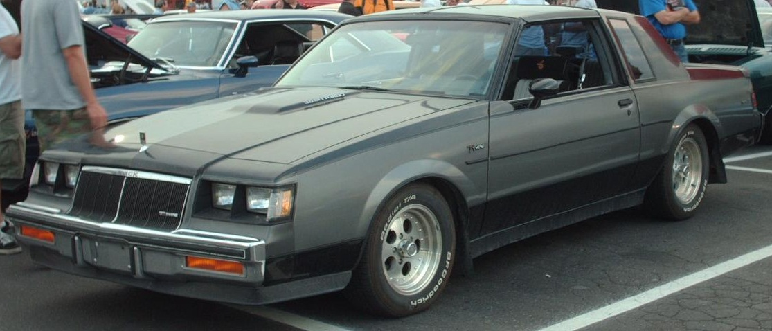 1984 Buick Regal coupe photographed in Montreal, Quebec, Canada at Gibeau Orange Julep.